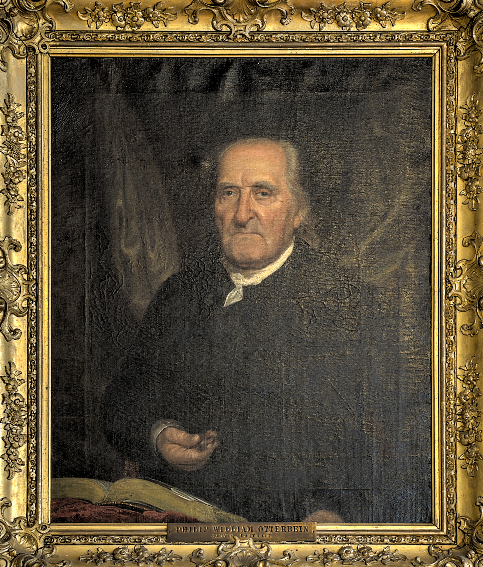 Phillip William Otterbein (1726 - 1813); First Bishop of the United Brethren in Christ